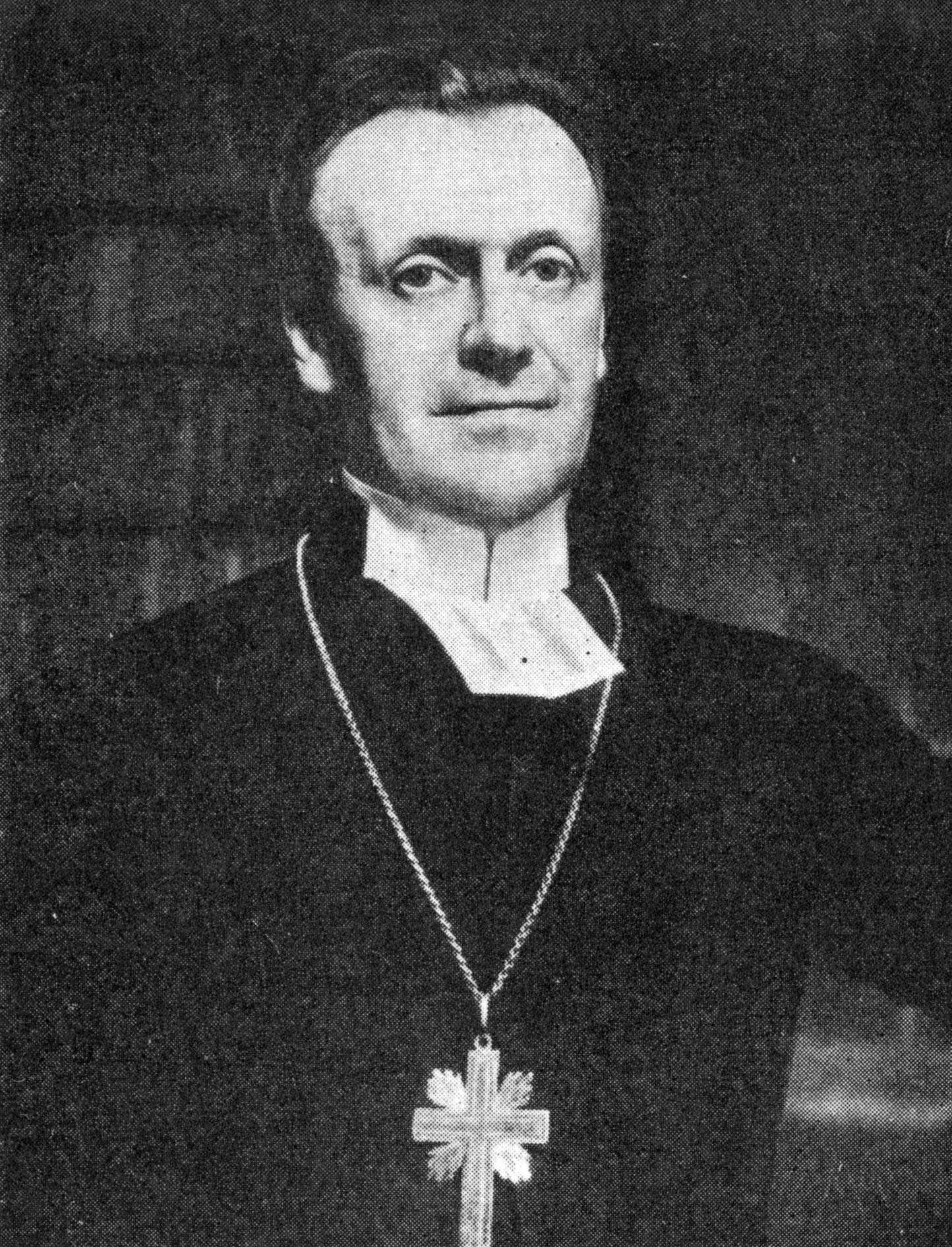 Archbishop Erling Eidem, Church of Sweden.